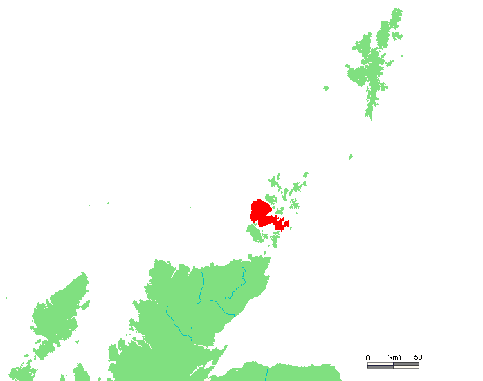 VK Mainland.PNG (Orkney and Shetland islands, UK)